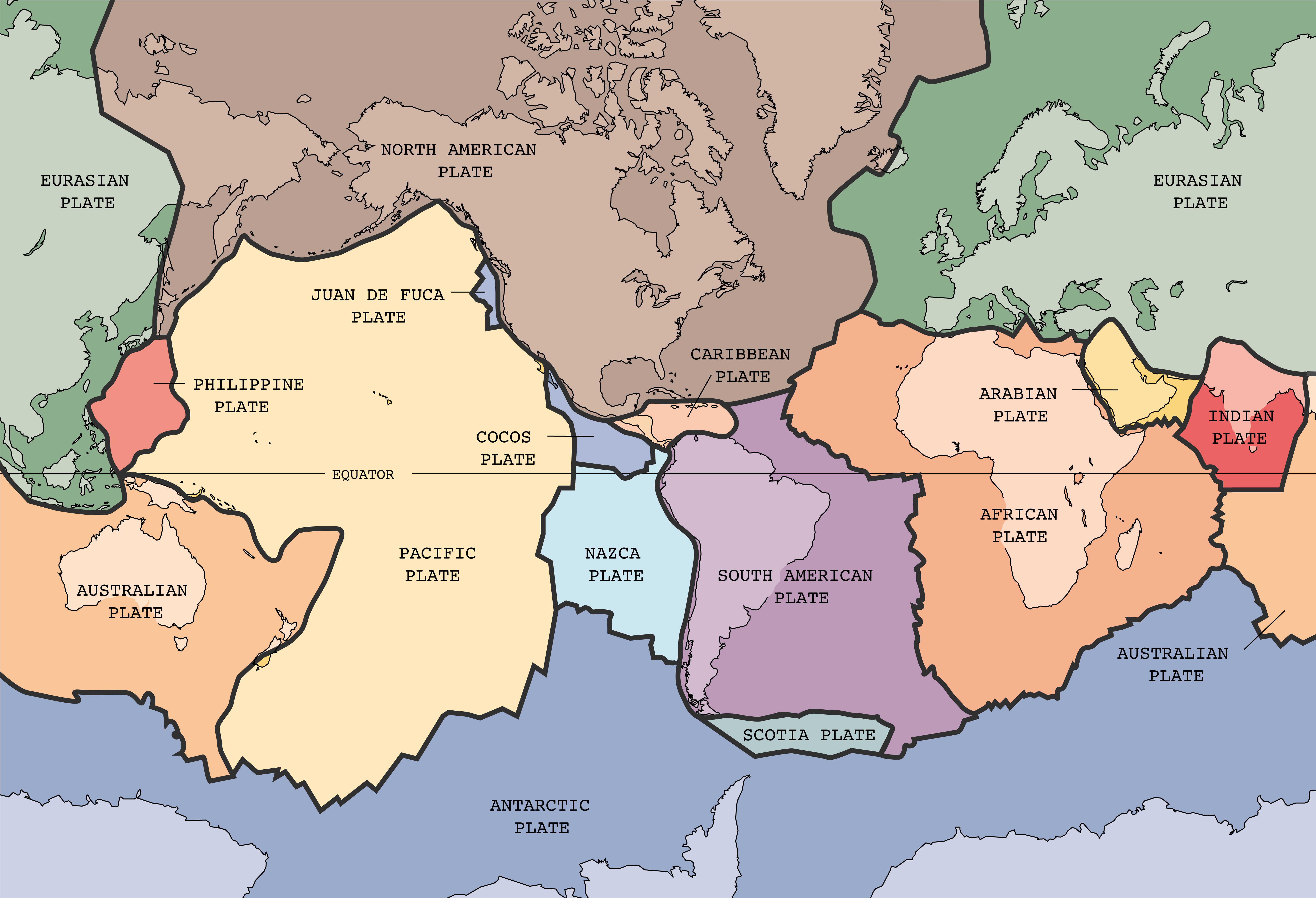 English text version of Image:Tectonic plates (empty).svg Tectonic plates of the Earth. From wikipedia.en, retrieved from USGS site: Original Image URL: [1] Listed contact: mailto: I uploaded a larger image made from the original illustrator file. —Ævar Arnfjörð Bjarmason 02:37, 19 Feb 2005 (UTC)